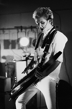 Solitaire (musician) performing at MICA, 1985